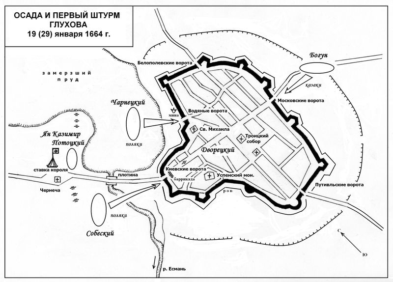 Siege of Glukhov (Hlukhiv) in 1664 by the army of Polish king Jan II Casimir